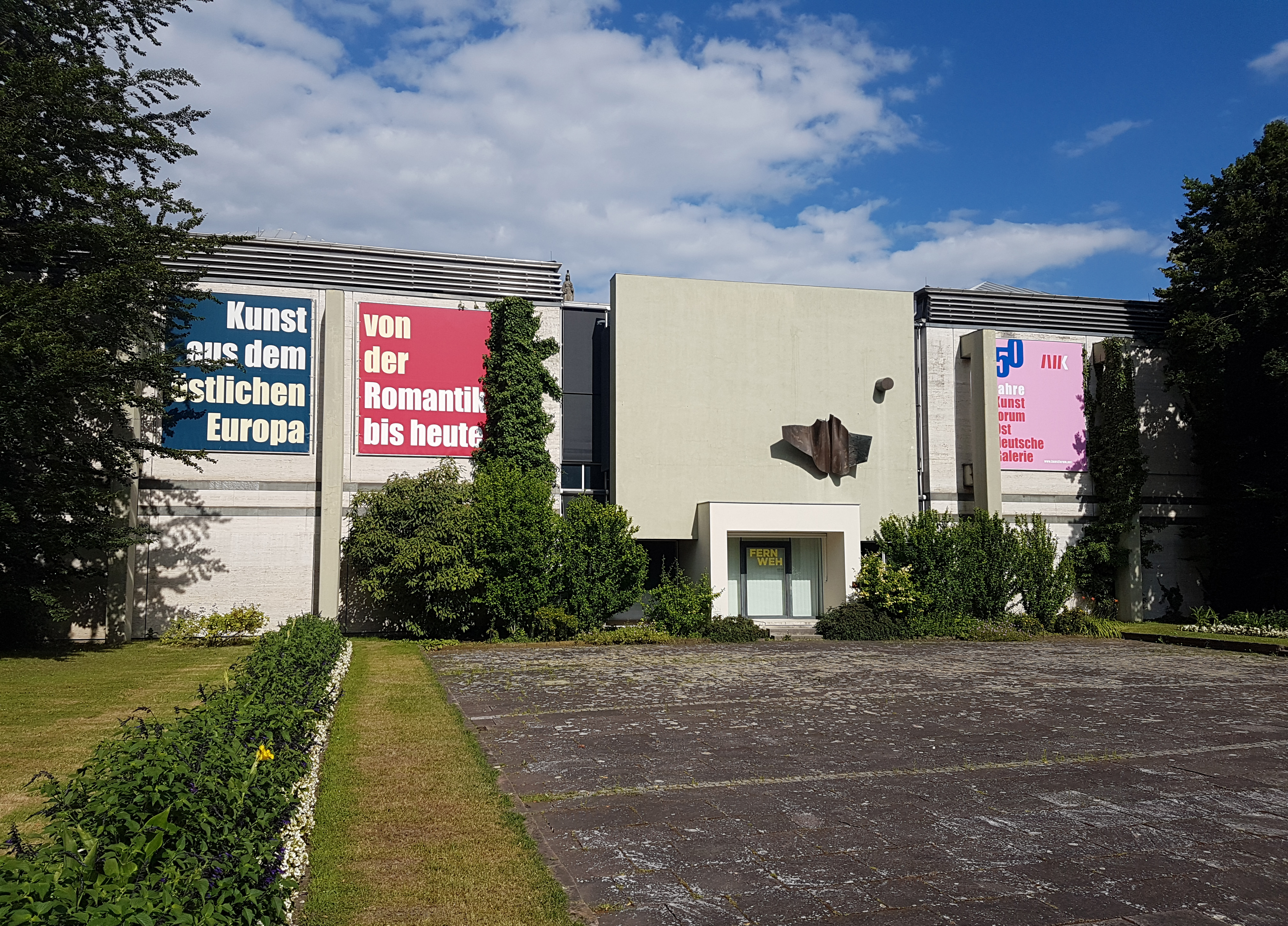 Kunstforum Ostdeutsche Galerie, Regensburg, 2020, view from park